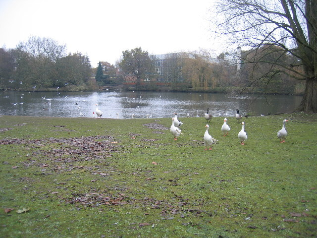 Tudor Grange Park Solihull. The pond in Tudor Grange Park with some of the local wildlife on a chilly day.